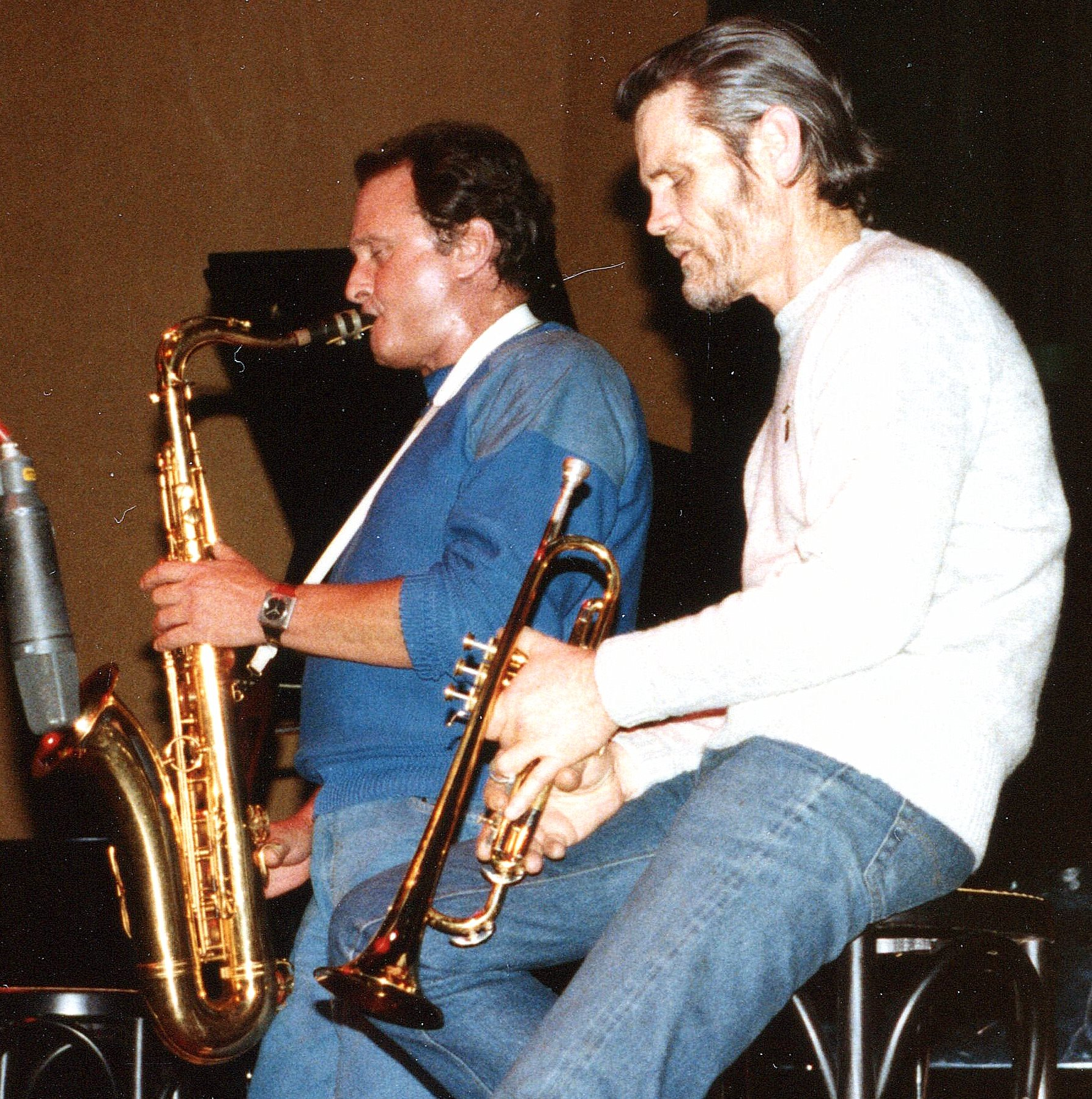 Stan Getz and Chet Baker performing in Sandvika, Norway, February 1983.